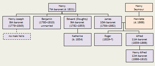 Simplified family tree of Tichborne family